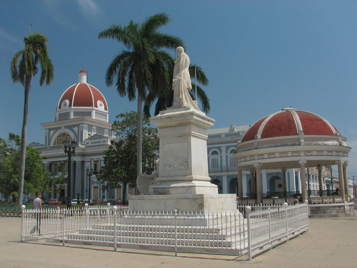 My Own - Wilder